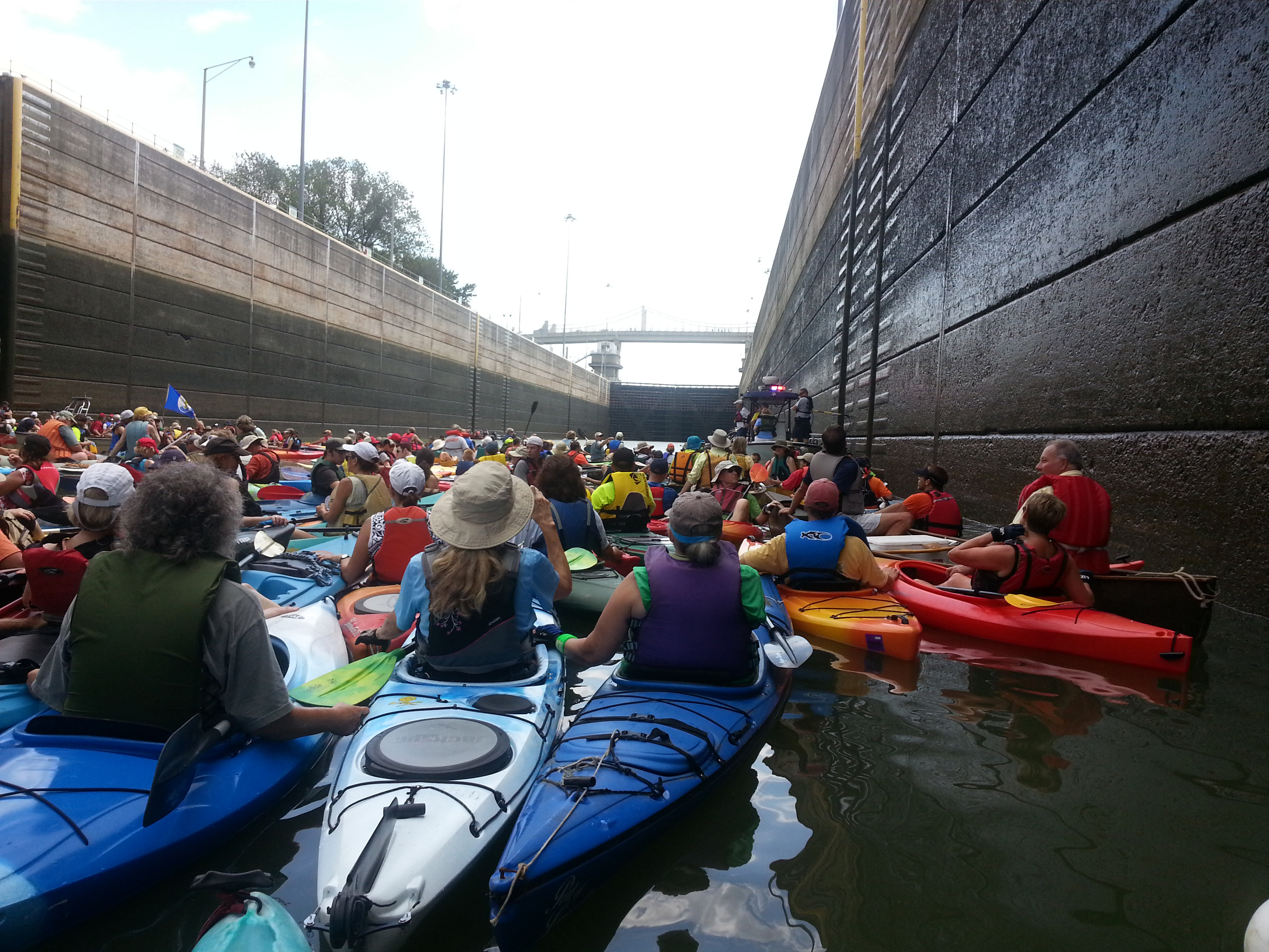 As part of Louisville Mayor Fischer's Hike, Bike and Paddle event held Sept. 2, more than 200 kayakers, canoeists and other boaters paddled their way through the McAlpine Locks and Dam on a 4.5-mile journey from the Louisville waterfront to New Albany, Ind.